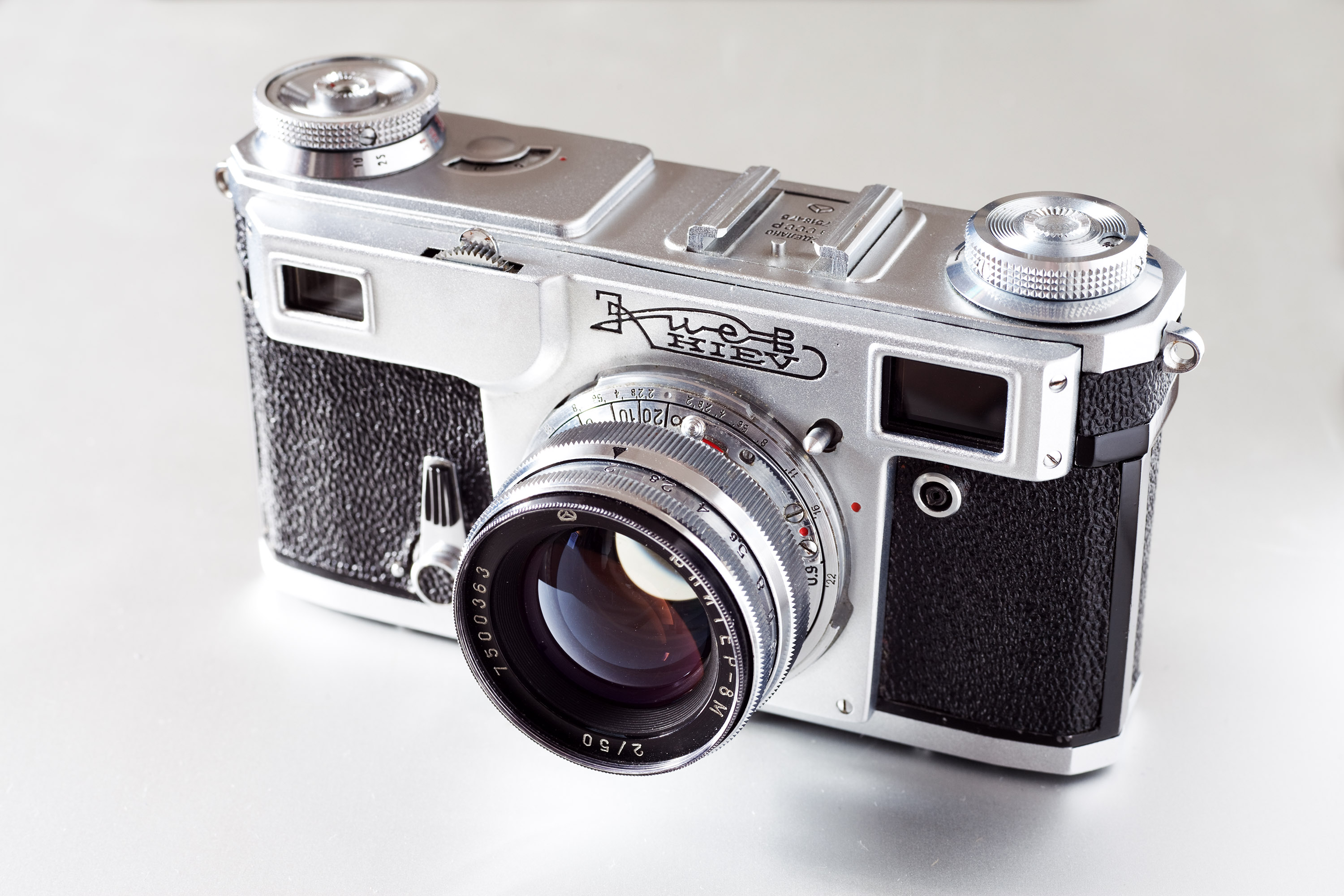 A Kiev 4A rangefinder camera.